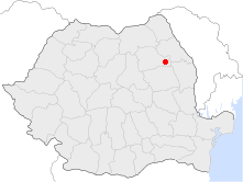 Location of Roman in Romania.